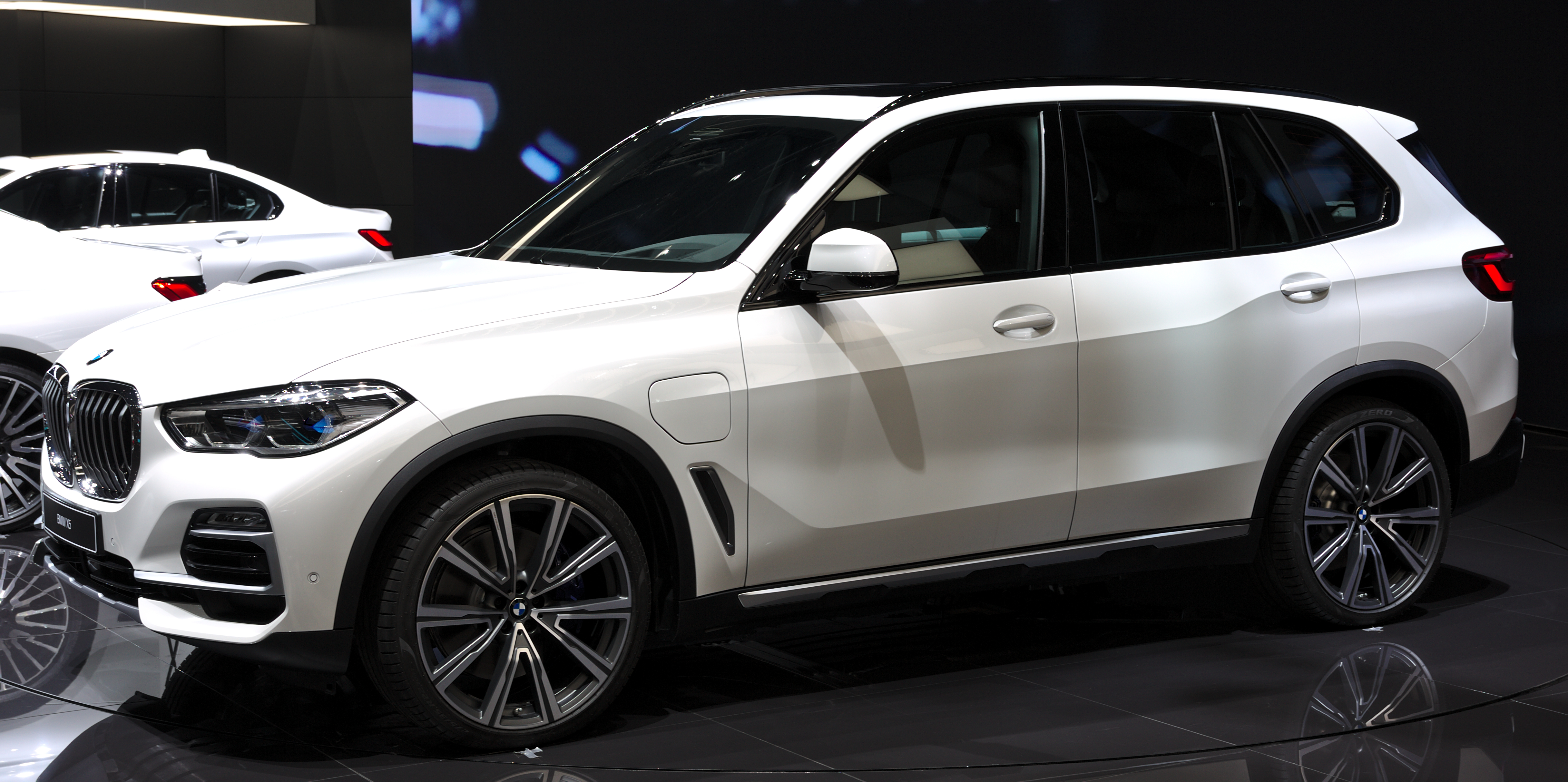 BMW X5 xDrive45e iPerformance at Geneva Motor Show 2019